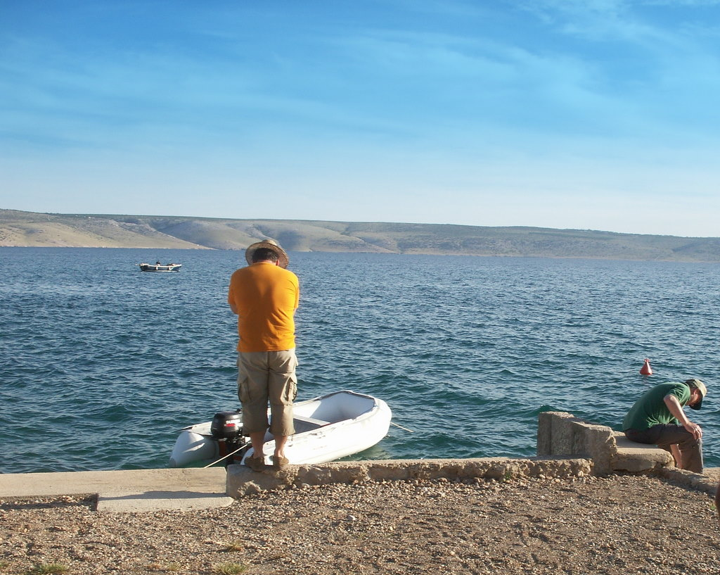 View of the Velebit channel from the port town of Starigrad / Zadar county on the Dalmatian coast in Croatia / Europe. View south to Ravni Kotari that is side by Bora with almost no vegetation. A man with a yellow T-shirt, shorts and hat looks on a dinghy with outboard motor.